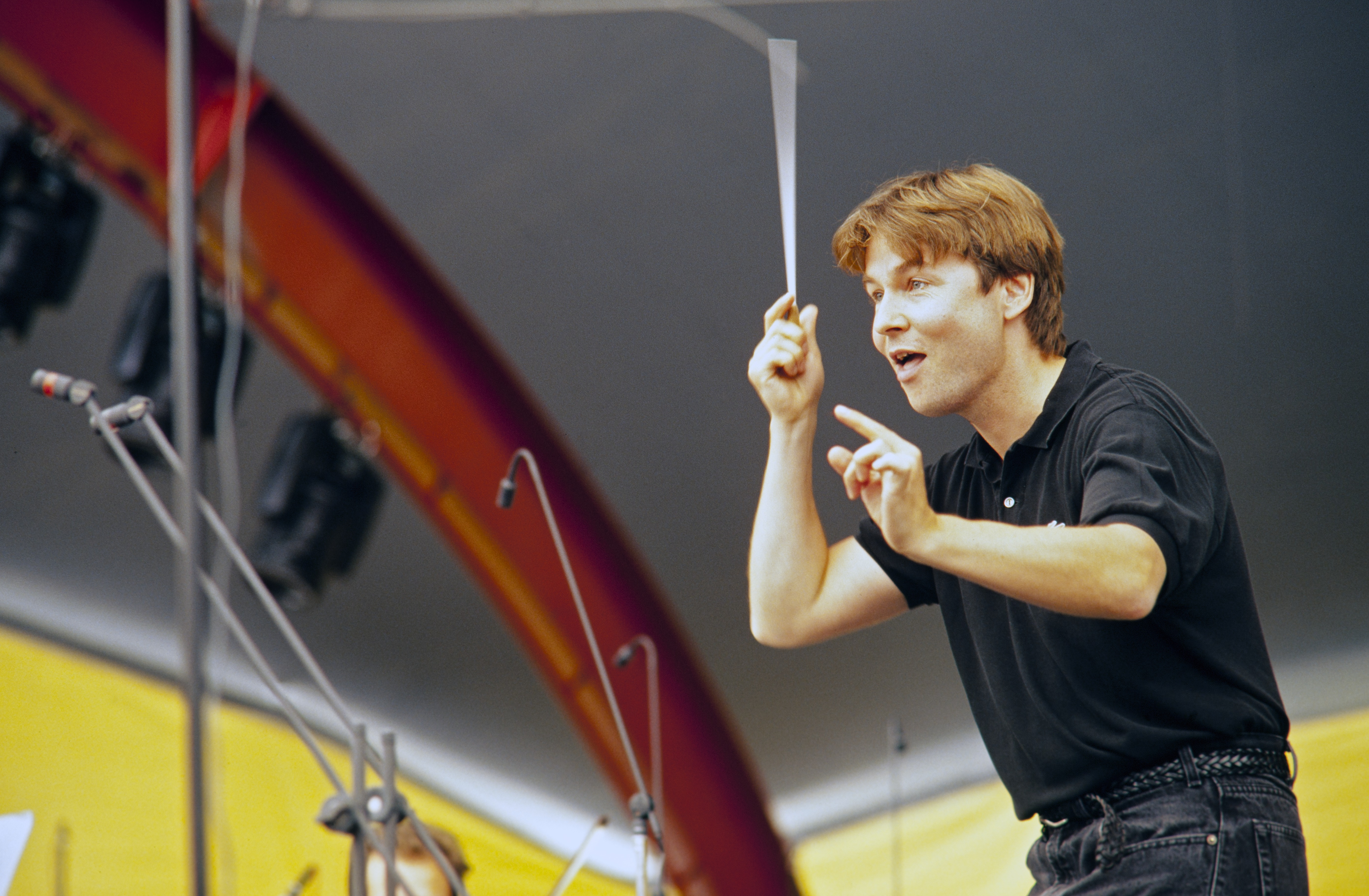 Photograph of the Finnish conductor Esa-Pekka Salonen (1958–) rehearsing Helsinki Philharmonic Orchestra in “Huvila” tent.